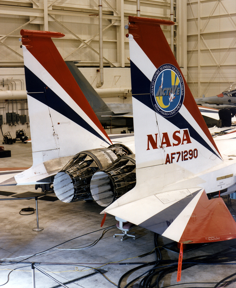 The F-15 ACTIVE (Advanced Control Technology for Integrated Vehicles) in a test bay in the Integrated Test Facility (ITF) at NASA's Dryden Flight Research Center, Edwards, California, Sept. 18, 1995. A key feature of the ACTIVE research project is the evaluation of the thrust vectoring nozzles seen here, developed by Pratt and Whitney, that could enhance high-angle of attack control and maneuverability on future aircraft.